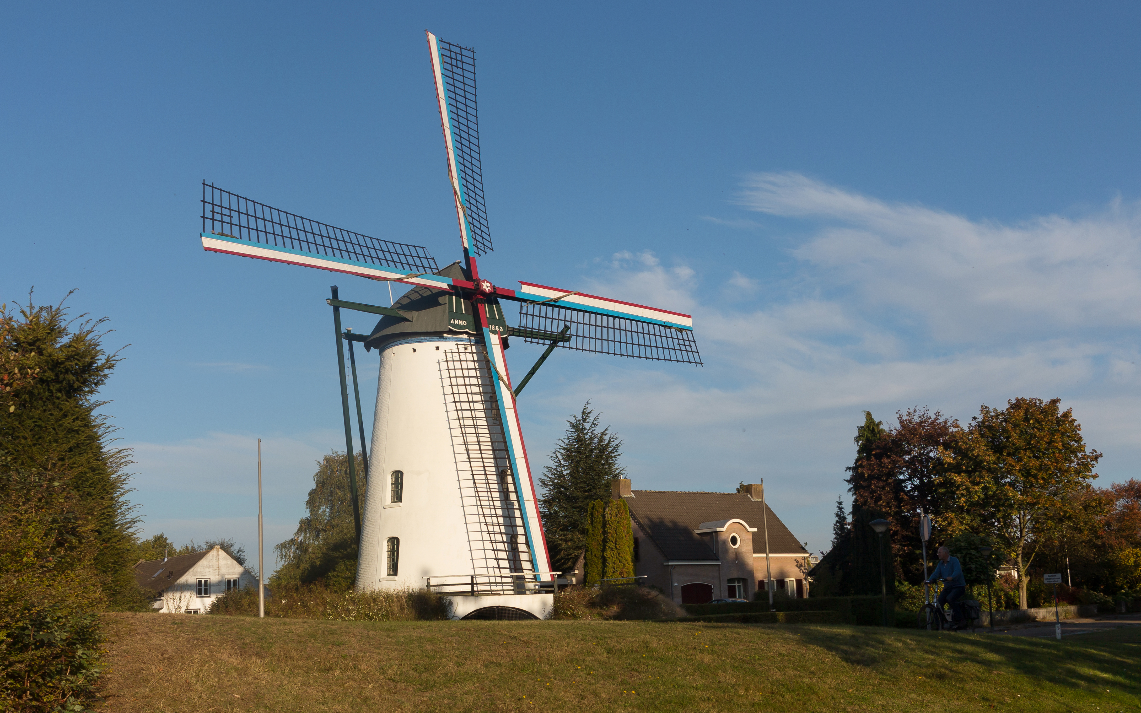 Geldrop, windmill: molen 't Nupke